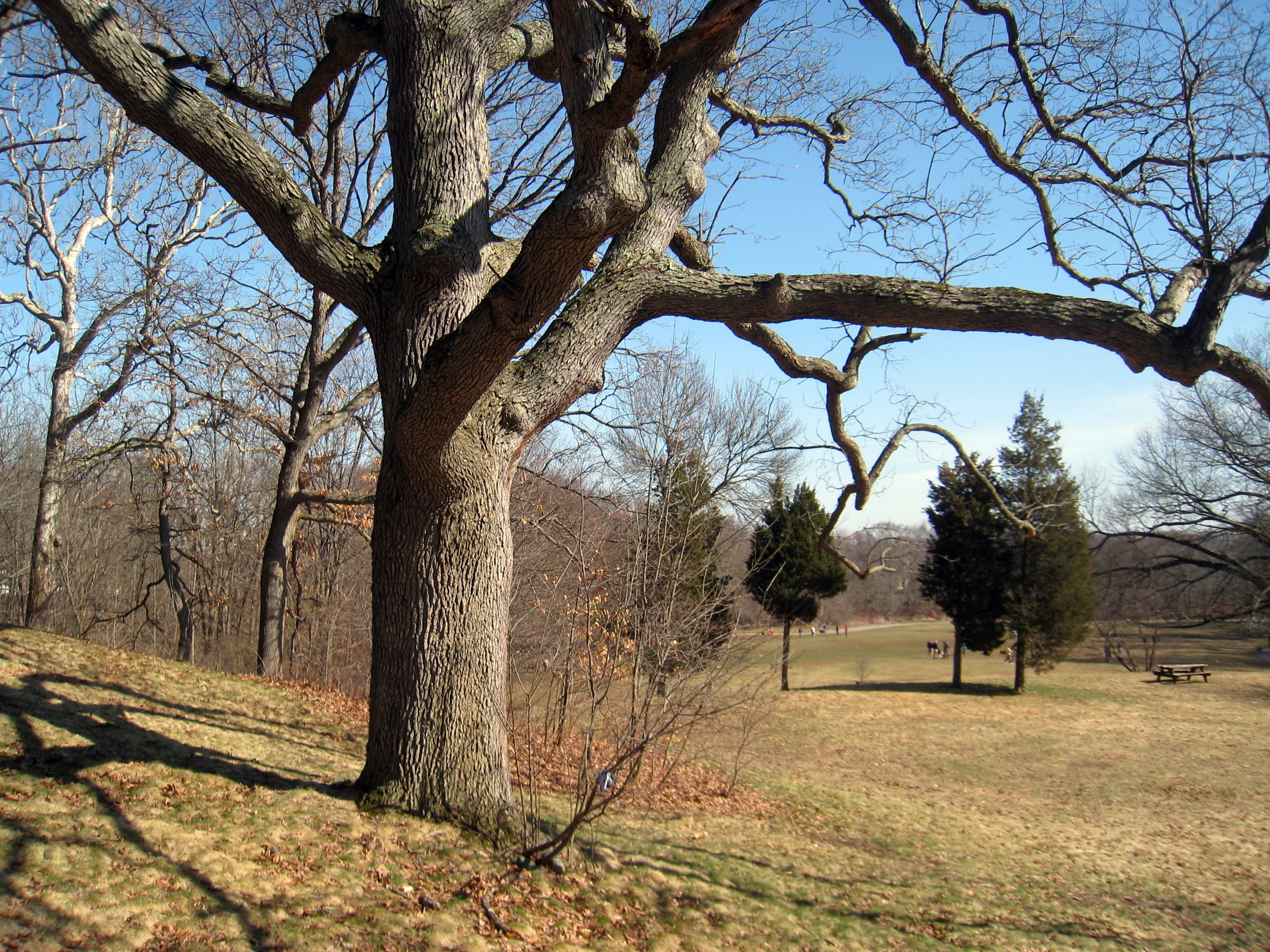 Waverly Oaks, part of Beaver Brook Reservation in Belmont and Waltham, Massachusetts, USA.